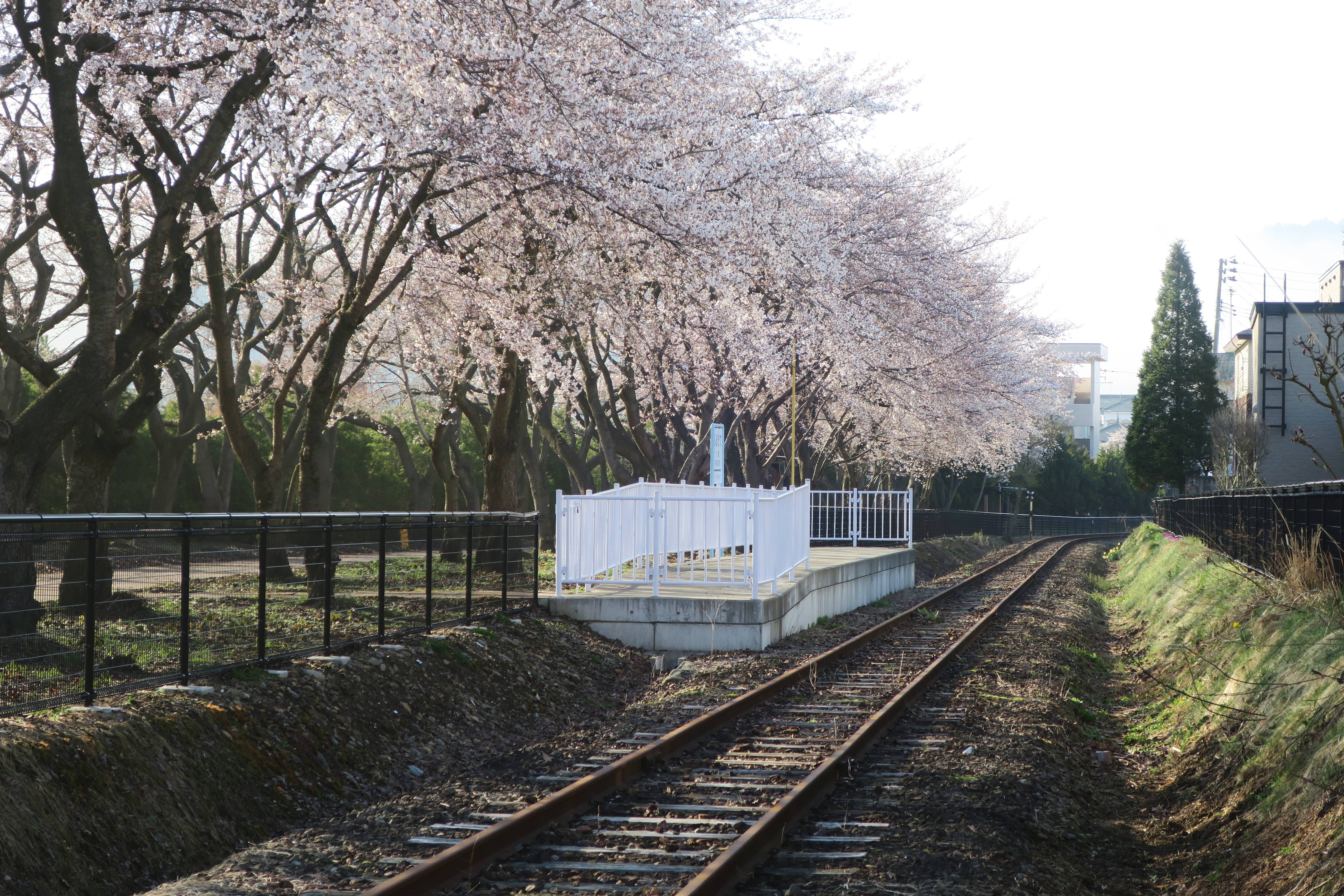 Furudate Station (Kosaka, Akita).